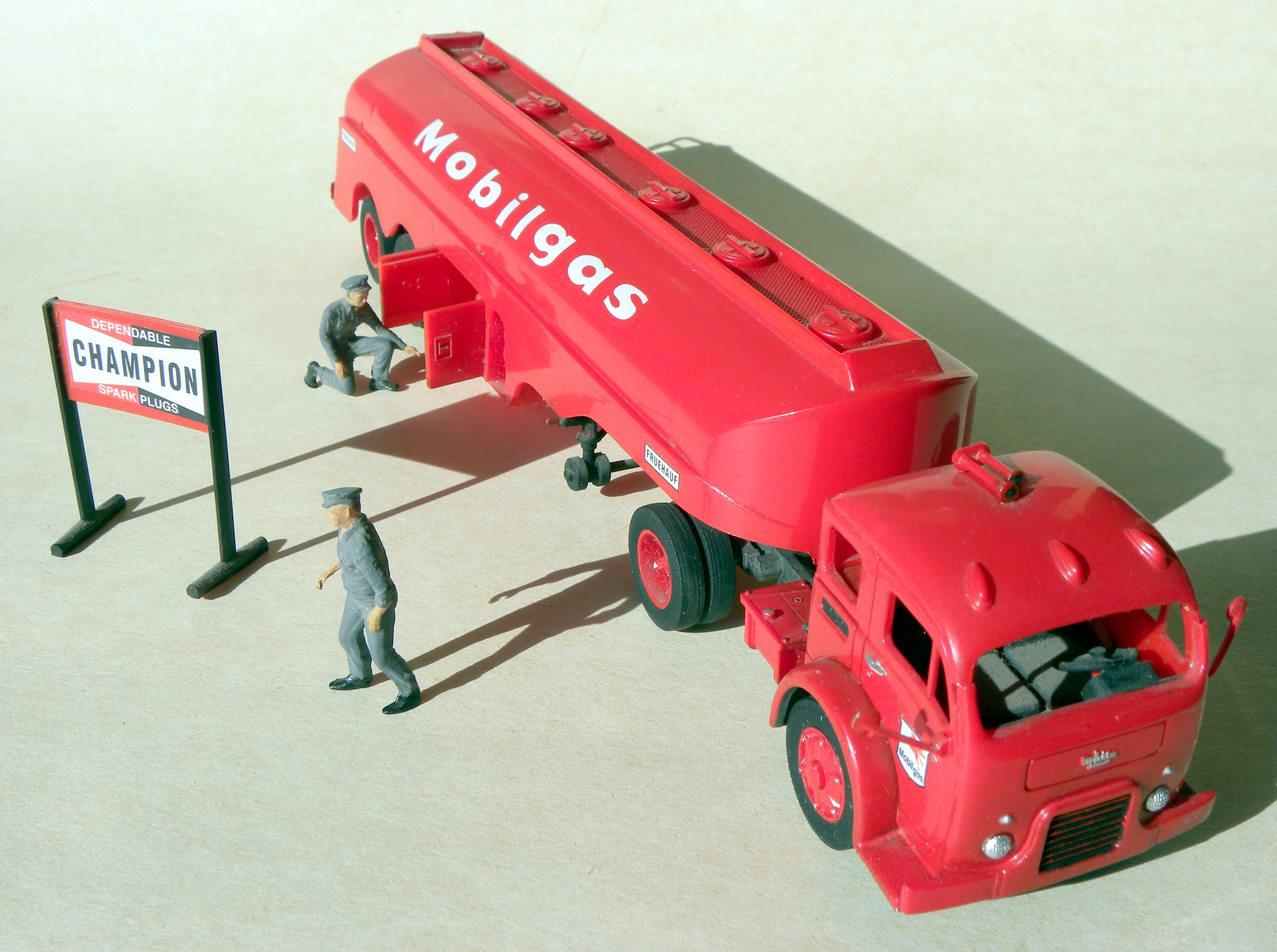 1/48 Revell White-Fruehauf Mobilgas Gas Truck the kit is from 1956 moulds reissue 1995.